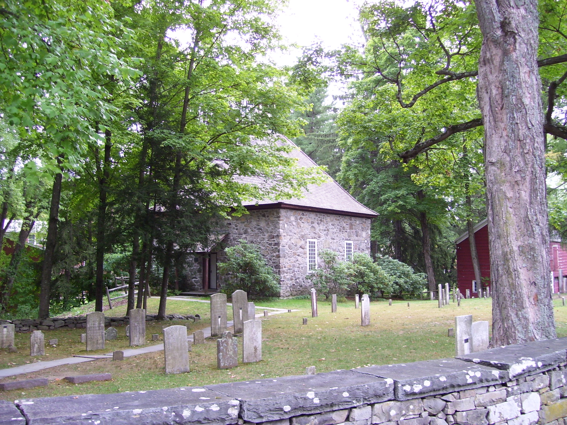 My Photo of the cemetery and recreation of the 1717 Reformed Church on Huguenot Street in New Paltz, New York, USA.